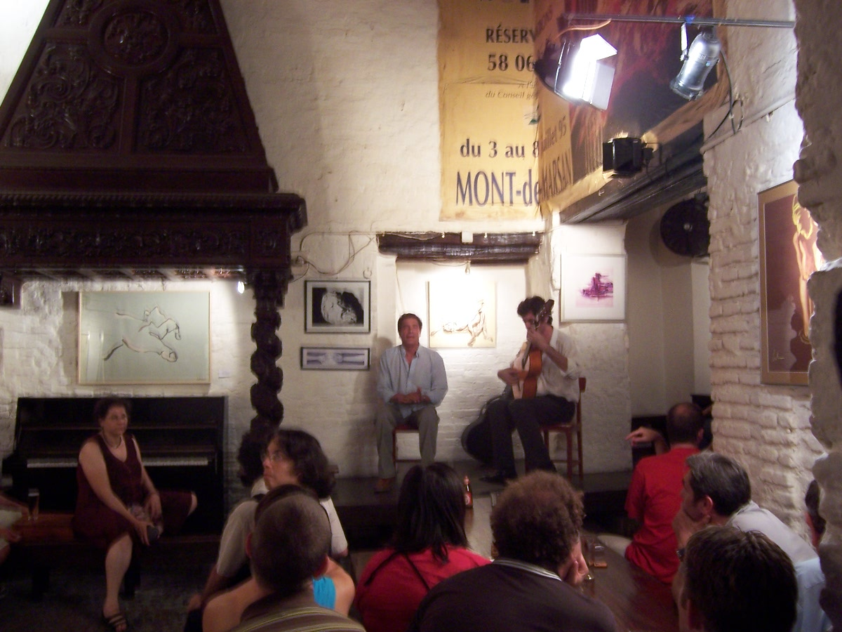 Flamenco show in "La Carbonería" camera: Kodak DX7440 Source: *Daniel Csorfoly